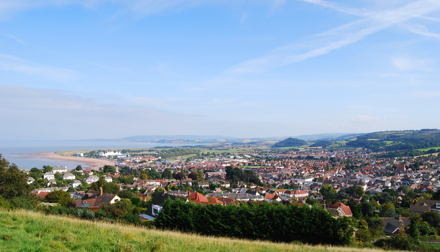 Minehead as seen from one of the surrounding hills.